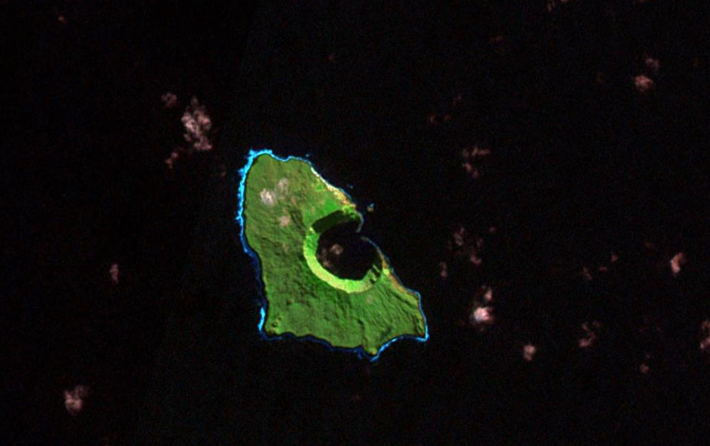 Landsat 7 image of Saint-Paul Island in the Southern Indian Ocean